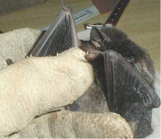 Silver-haired Bat (Lasionycteris noctivagans)